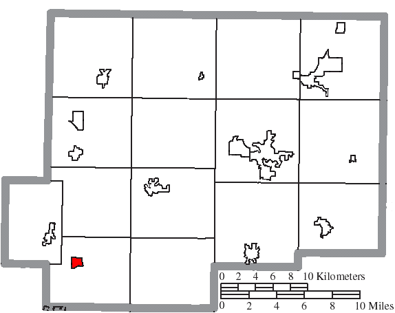 Map of the municipal and township boundaries of Putnam County, Ohio, United States, as of the 2000 census, with the location of the village of Fort Jennings highlighted. Township borders are shown only in unincorporated areas in order to differentiate incorporated and unincorporated areas more clearly.